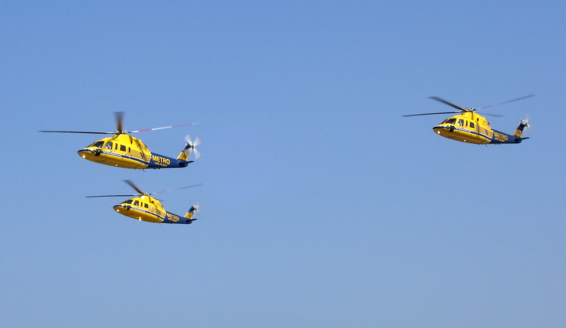 3 Sikorsky S-76s operated by Metro Life Flight flying in formation at the 2008 Cleveland National Air Show.